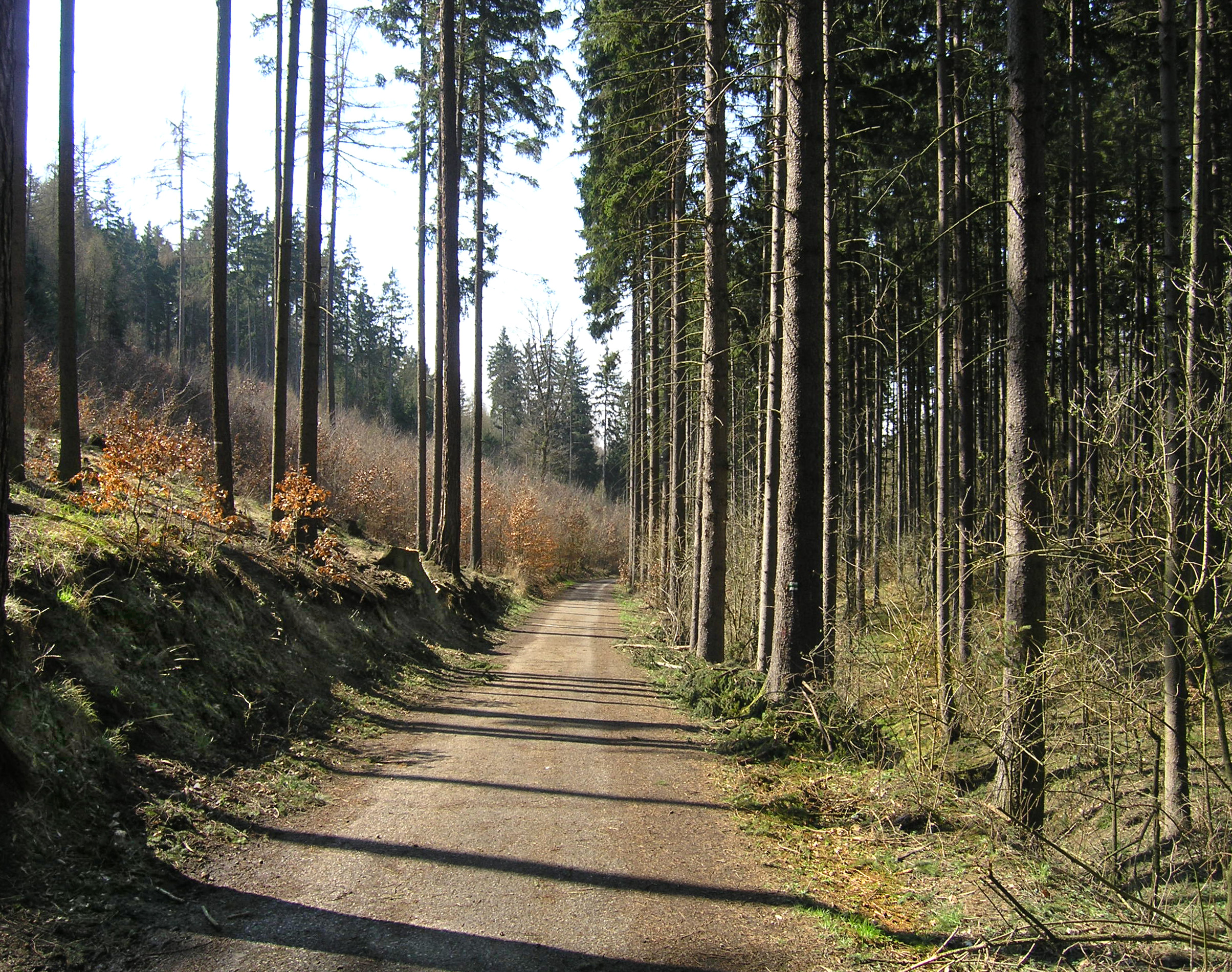 Down to the Kunratický creek at Kunratický forest, Prague